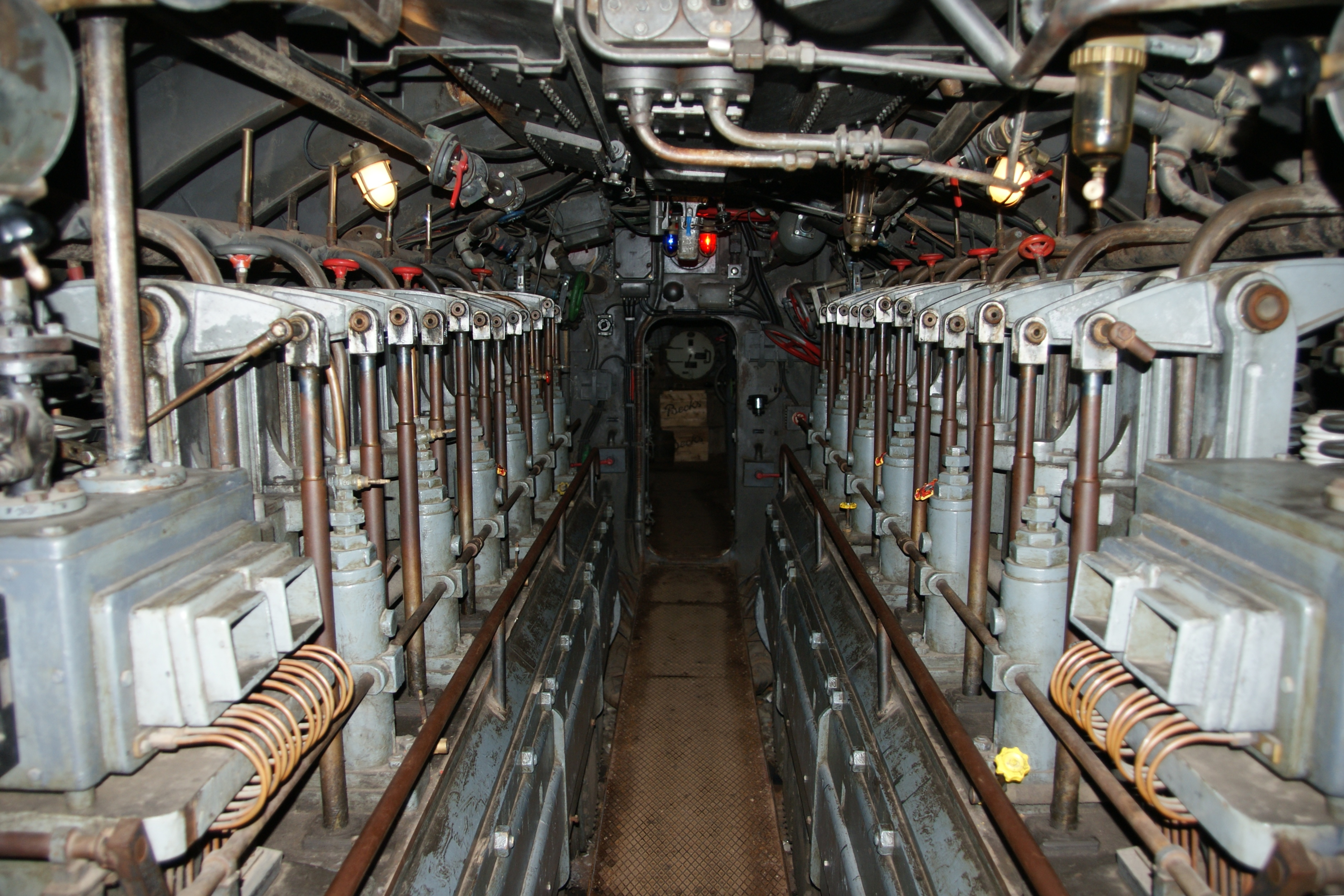 Film set of Das Boot at the Bavaria Film Studios